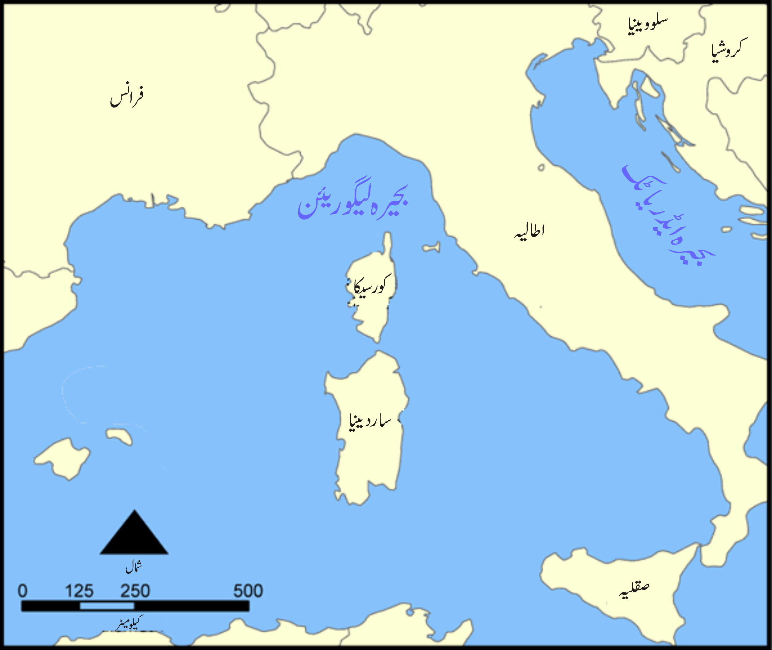 Ligurian Sea map Urdu